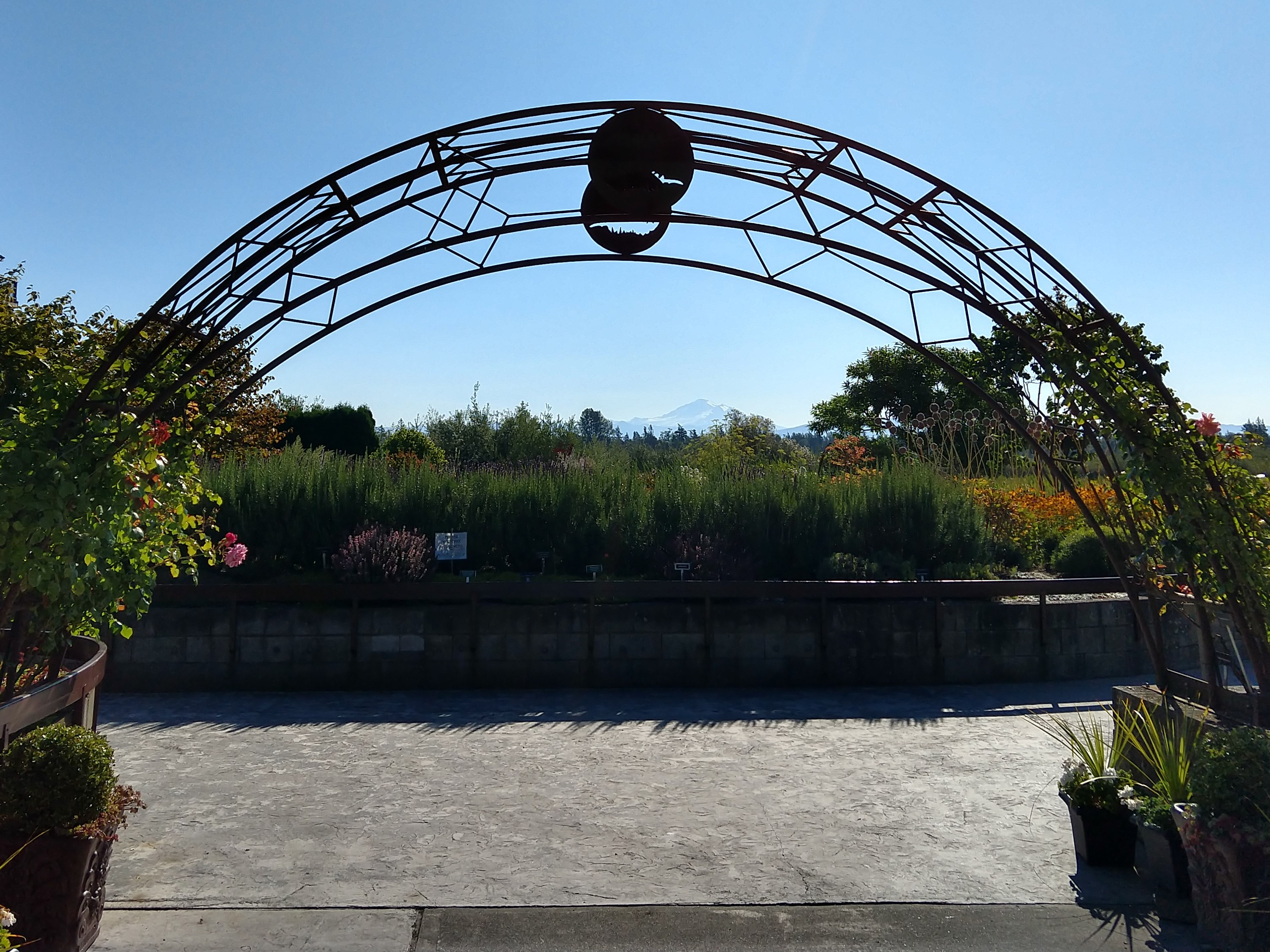 Hovander Homestead Park - Lake Tennant Section - Entrance to Fragrance Garden - August 16, 2020 @ 9:30 AM